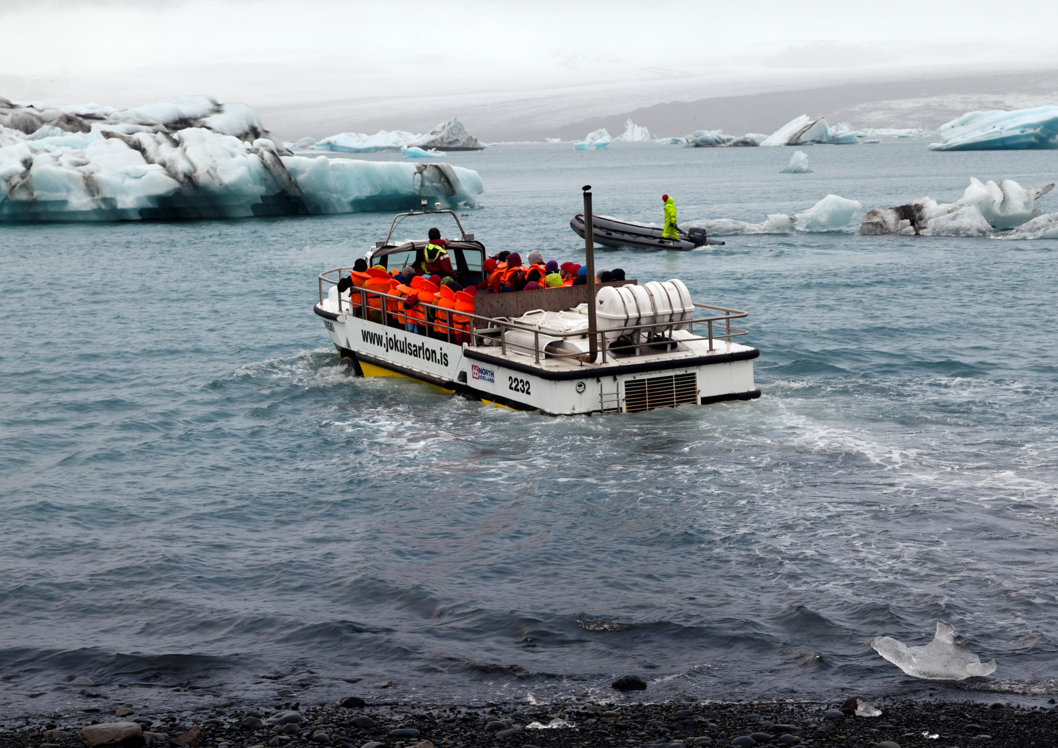 LARC V in use for tourist trips on Iceland (Jokulsarlon ice lake)